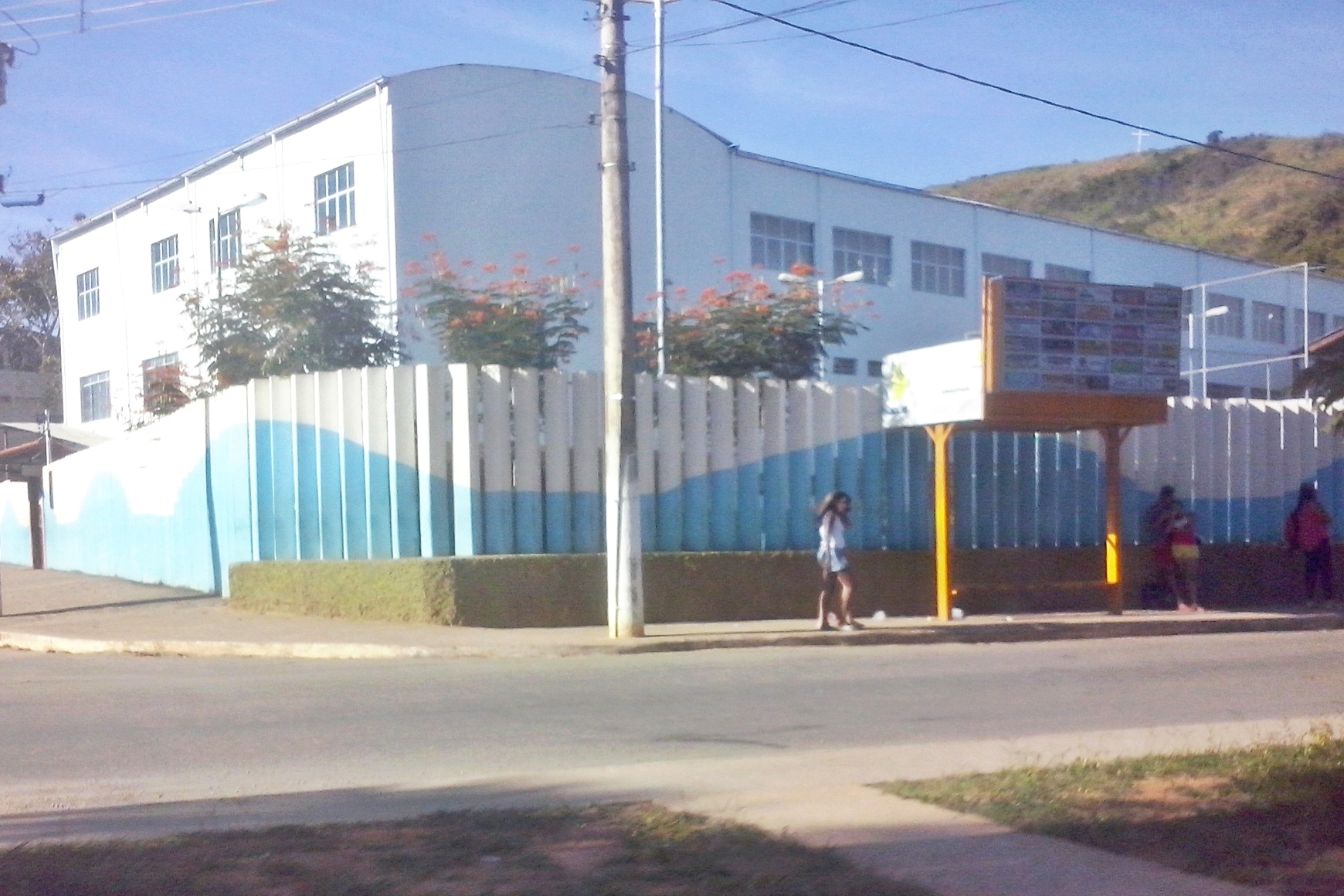 View of the Pedro Fernandes Mafra Municipal School, in Naque, Minas Gerais, Brazil.